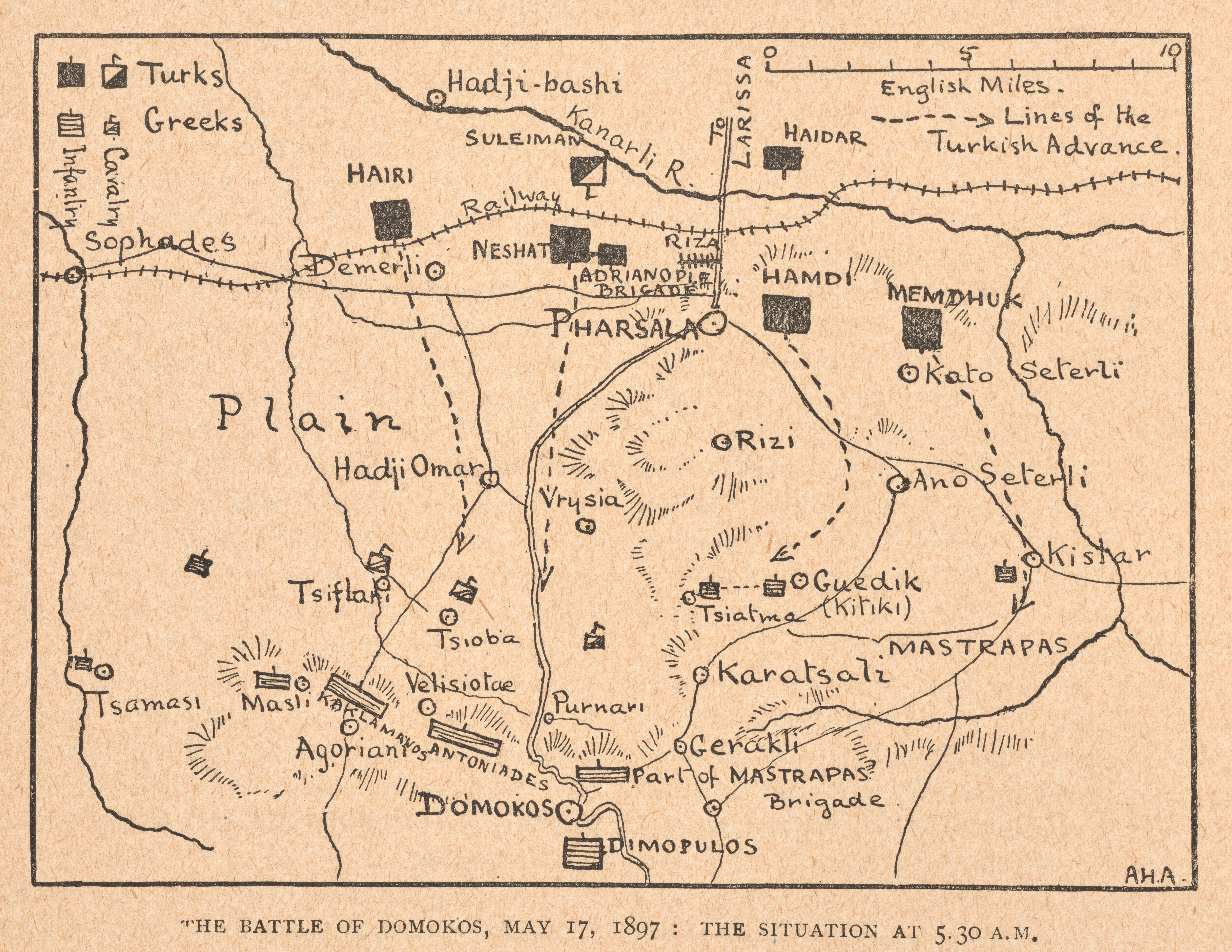 This map depicts the Battle of Domokos of May 17, 1897, part of the Greco-Turkish War (1897). It includes a number of places in the plain of Thessaly, central Greece. The map is found on p. 704 of The wars of the nineties; a history of the warfare of the last ten years of the 19th century (London, Paris, New York, & Melbourne: Cassell, 1899) by Andrew Hilliard Atteridge. The image is courtesy of the John Hay Library at Brown University, where the book is part of the Anne S.K. Brown Military Collection.